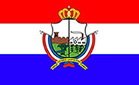 Flag of Colônia Leopoldina - AL - Brazil.